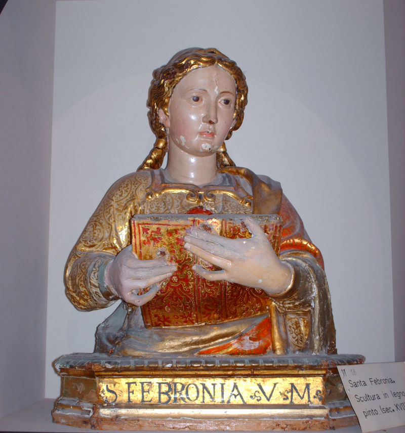 Wooden reliquary of Santa Febronia, the XVIII century. Diocesan Museum of Trani. Author unknown. Photo: Giuseppe Maggiore 2008.